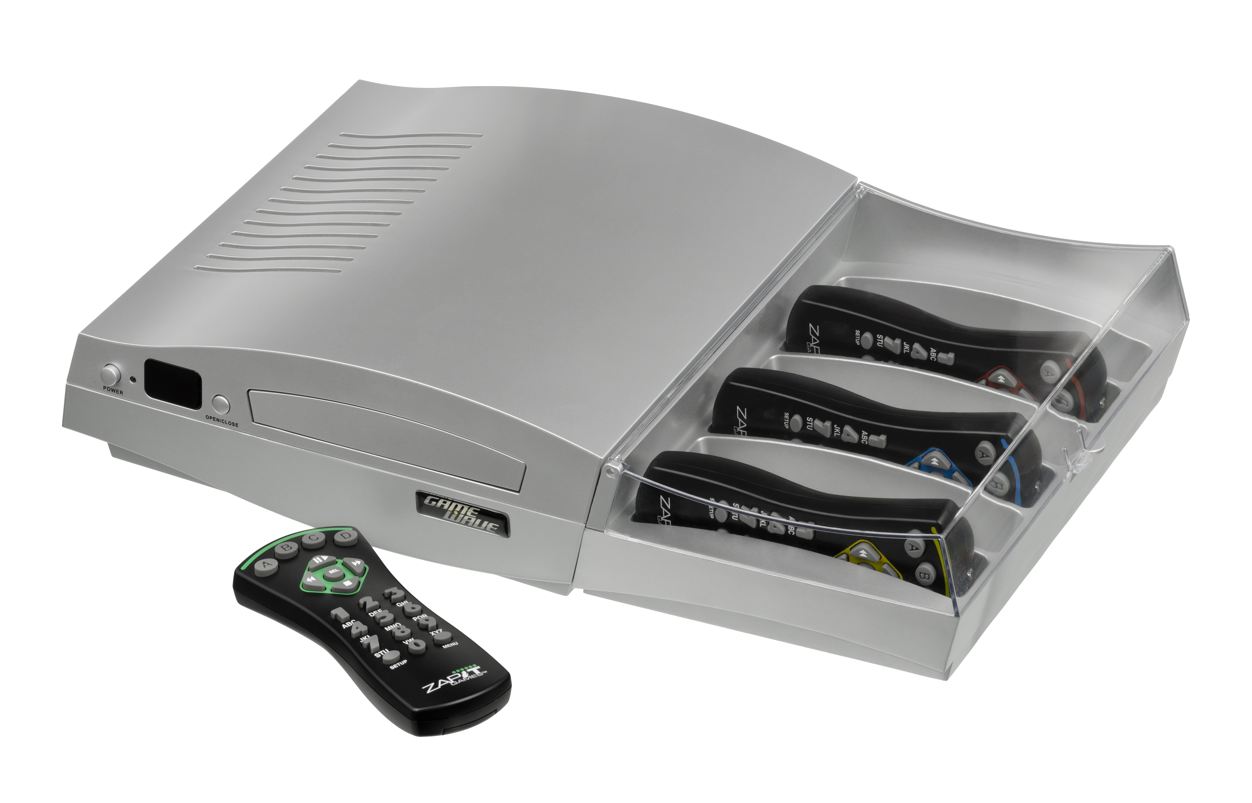 The Game Wave, a video game/home entertainment console released in 2005. The system is largely a DVD player where games are played through interactive menues and pre-rendered videos. The Game Wave plays a variety of in-home multiplayer titles, focusing on trivia, that comes with multiple remote controls for each player to select their answers. Four remotes come with the system, and up to six players can play at once with two additional remotes.